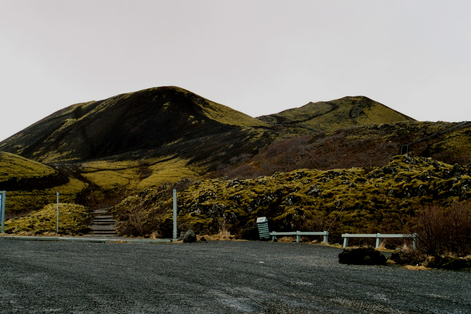 It shows the crates of Grábrók near Borgarnes in the west of Iceland.